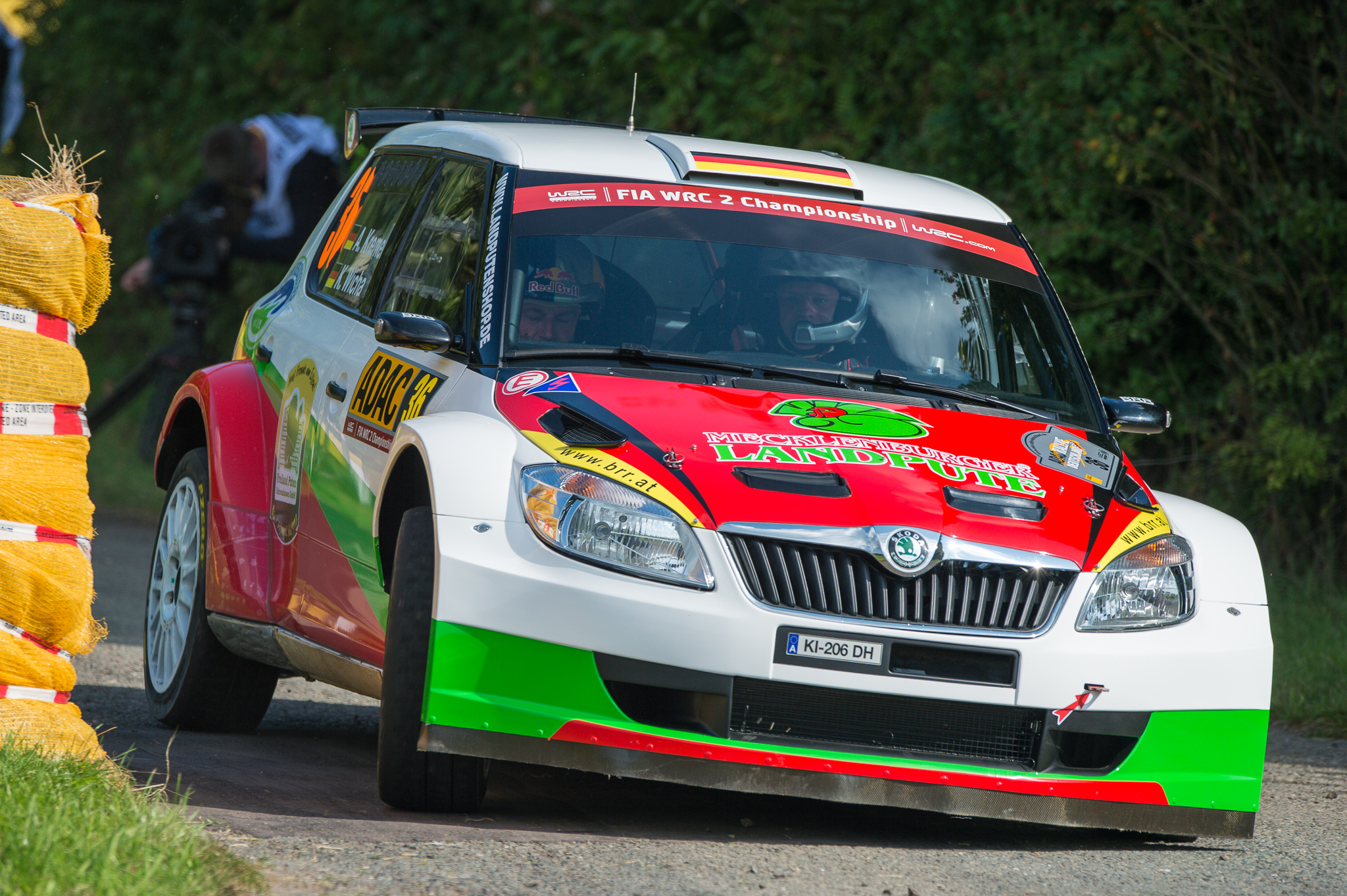 ADAC Rallye Deutschland 2014,Armin Kremer,FIA,FIA World Rally Championship,Klaus Wicha,Motorsport,Rally,Rallye,Shakedown,Skoda Fabia S2000,WRC 2